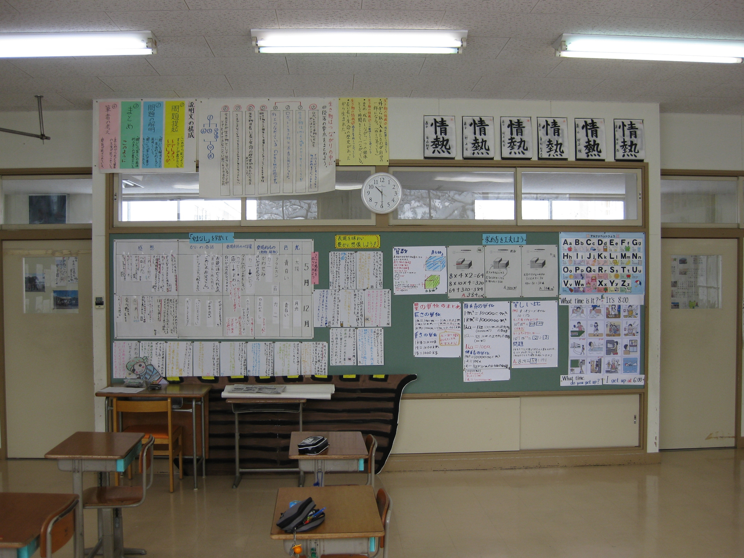 The side wall of a classroom at Hitane Elementary School. Shimo-Hitane, Chokai, Yurihonjo, Akita, Japan.